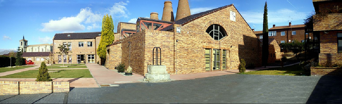 Giral la Porta´s Center and Library of Valdemorillo